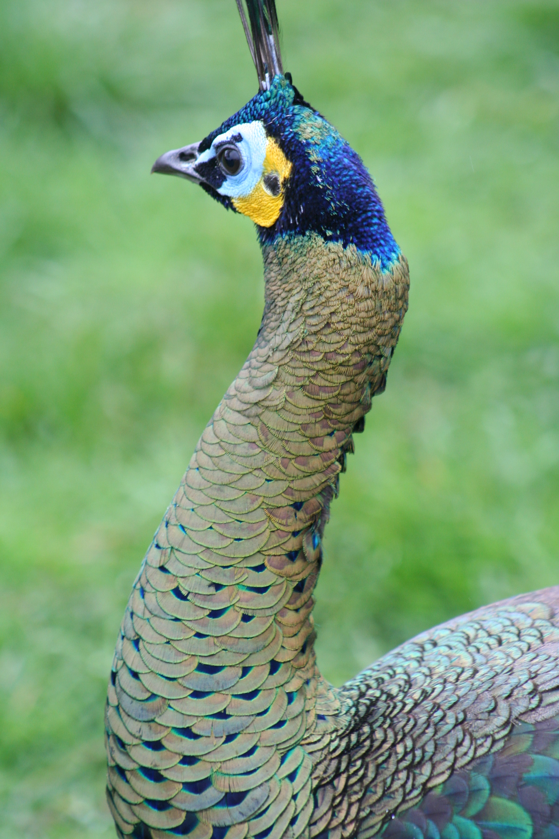 Pavo muticus imperator male